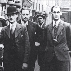 1917 - S Jennings Ltd is one of the first dealers in the country to be appointed by Ford Motor Company to sell its cars.